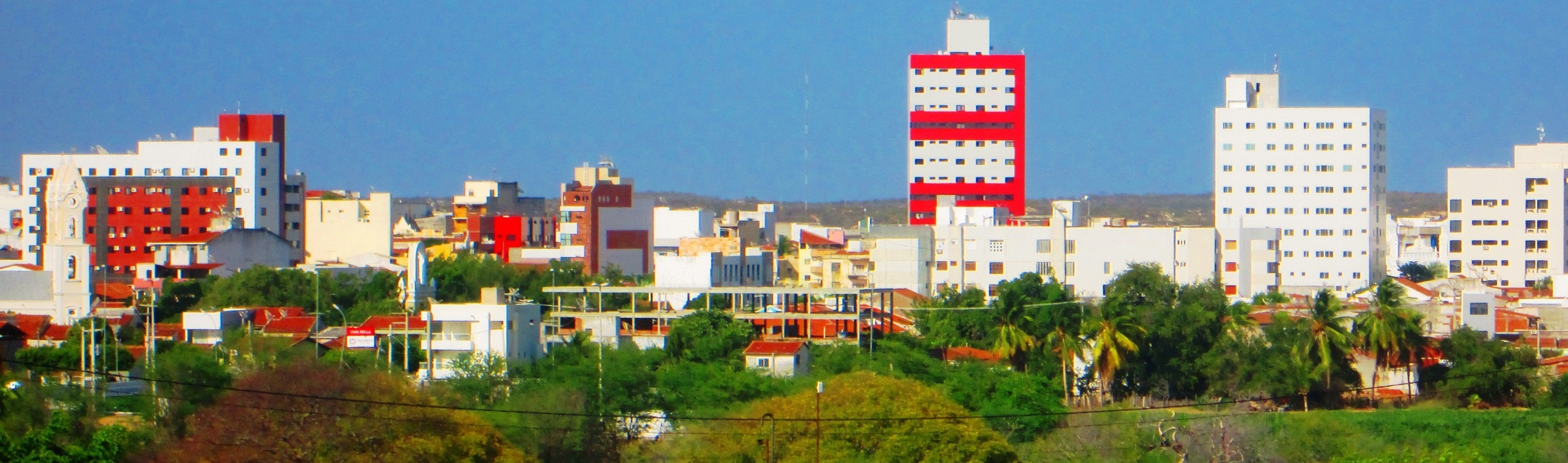 caicocentralregion